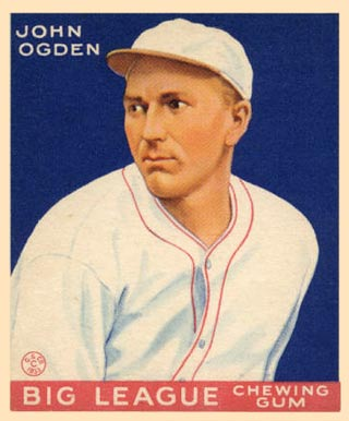 1933 Goudey baseball card of John "Jack" Ogden of the Cincinnati Reds #176. PD-not-renewed.